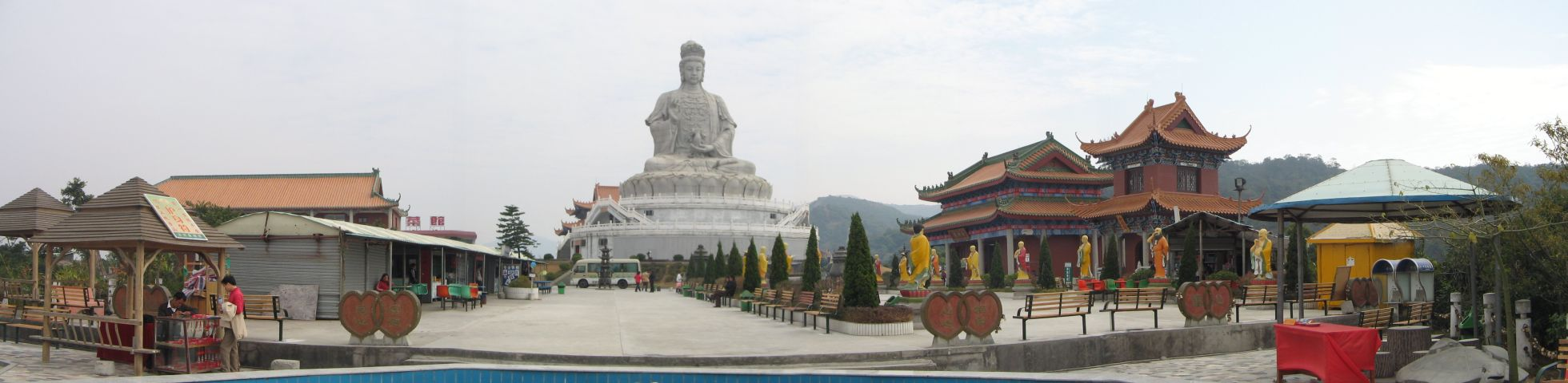 Guan Yin mountain in Dongguan, Guangdong Province, People's Republic of China. Panoramic photo taken by mintchocicecream on 27 December 2005.